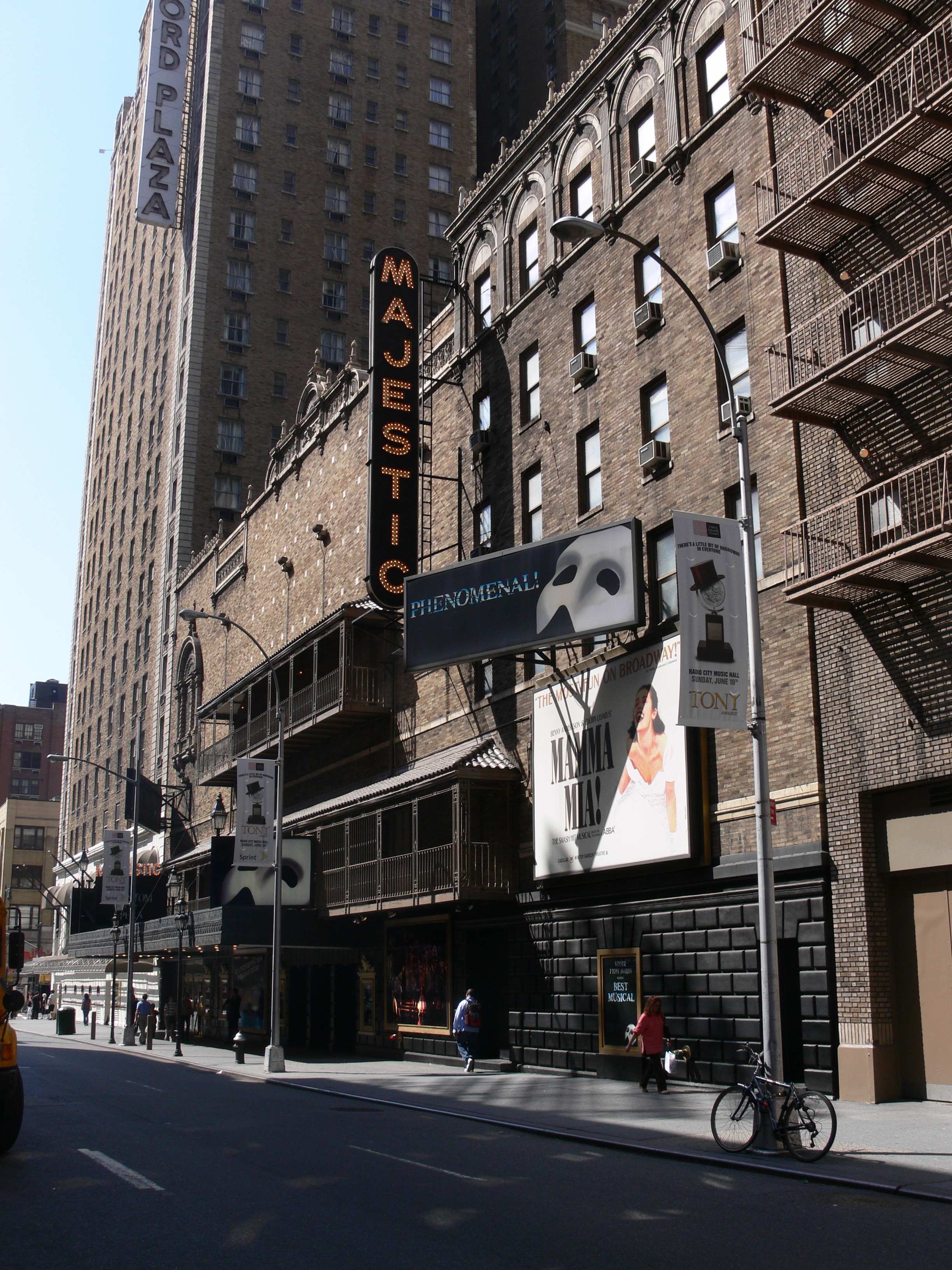 Majestic Theatre 245 West 44th Street, Manhattan, New York City